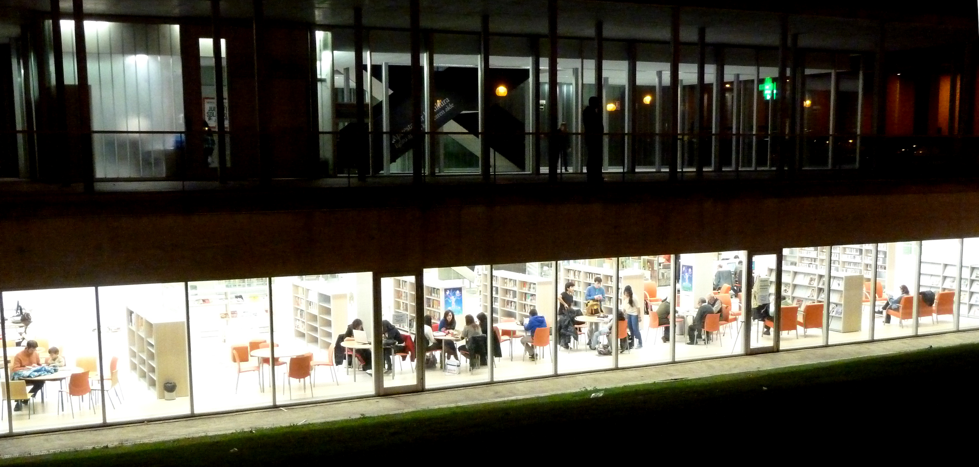 Public Library of San Jorge, a neighborhood of Pamplona/Iruñea. It was created in 1980, which was placed in the Public School San Jorge, to move in 2006 to its current hubicacion: Dr. Gortari Street 2. It is integrated into the Library Service of the Department of Culture and Tourism of the Government of Navarre. Also, the Pamplona City Council is also involved in its management through a collaboration agreement.